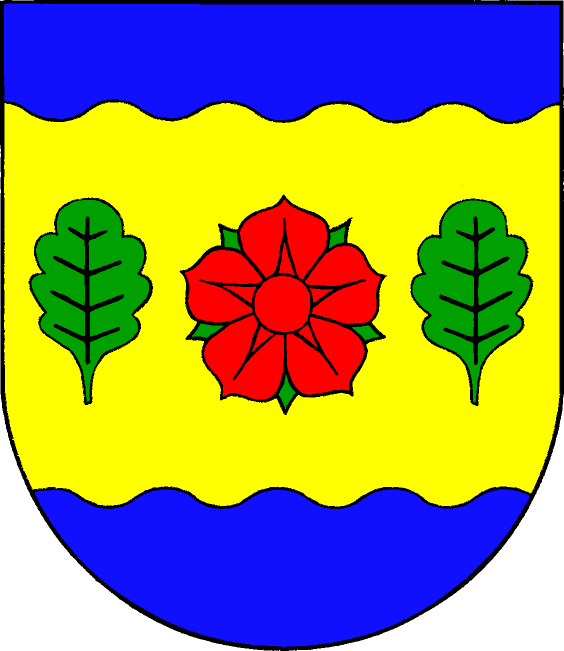 Coat of arms of the municipality Loose in Schleswig-Holstein, Germany.